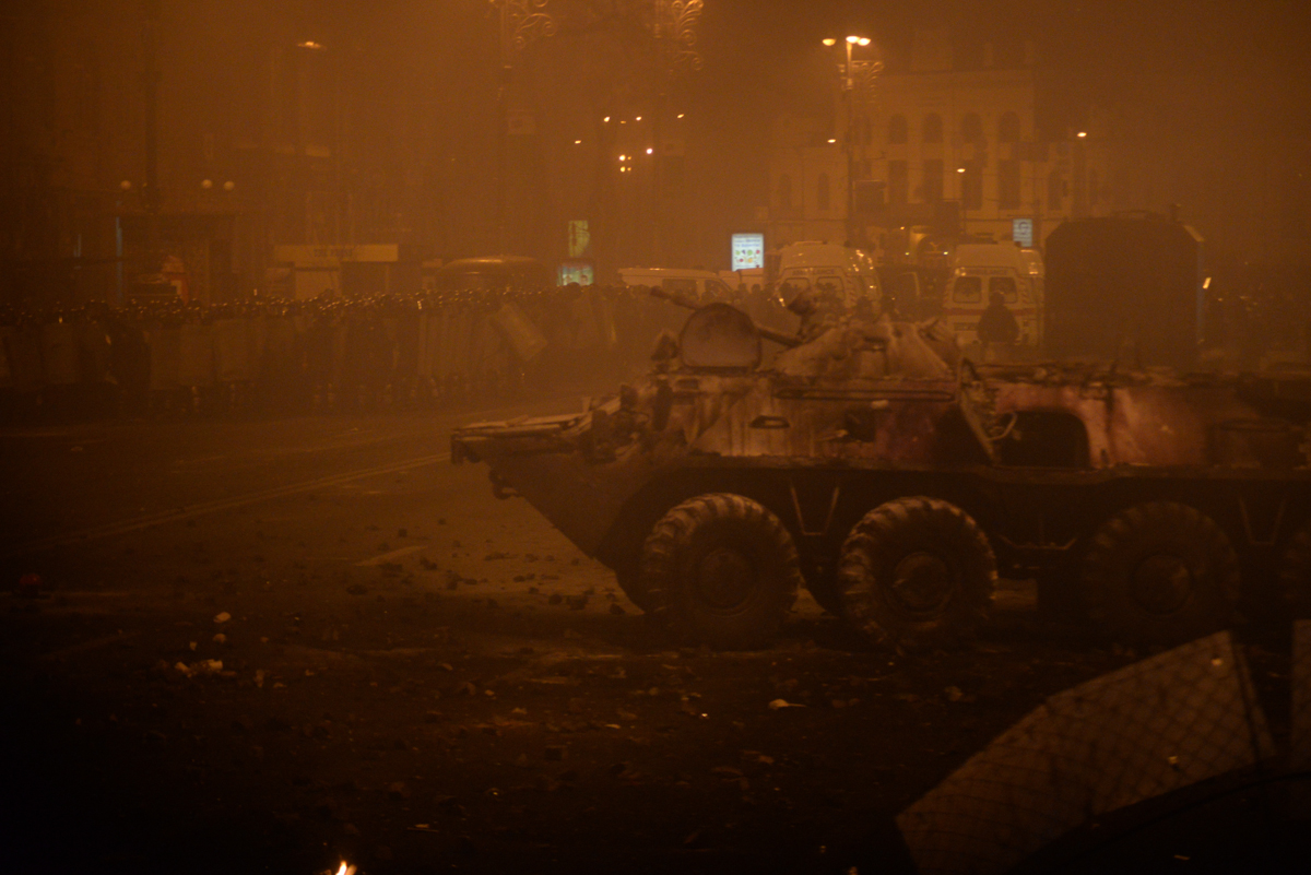 Military equipment seen during clashes in Kyiv, Ukraine. Events of February 18, 2014